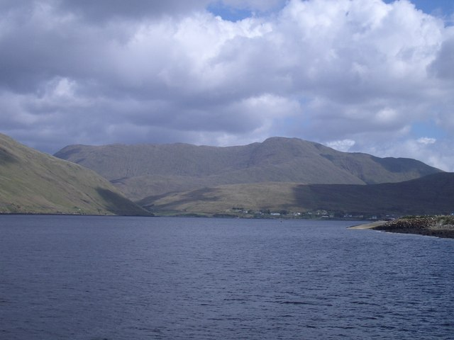 Killary Harbour: the slipway at Nancy's Point The mooring for the Killary Harbour Cruise; in the background the 'Devil's Mother'